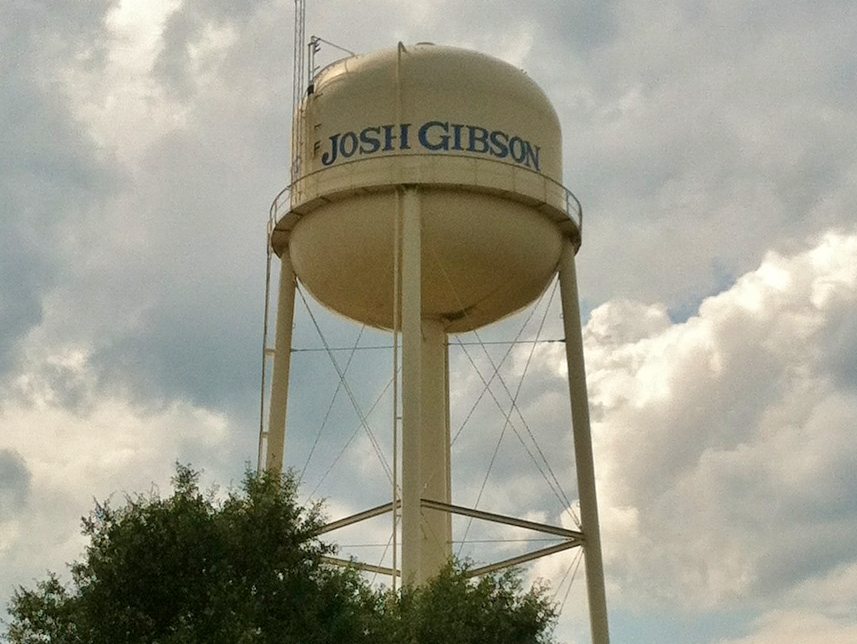 This is a photo of a water tower in Buena Vista, GA which bears the words "Home of Josh Gibson".